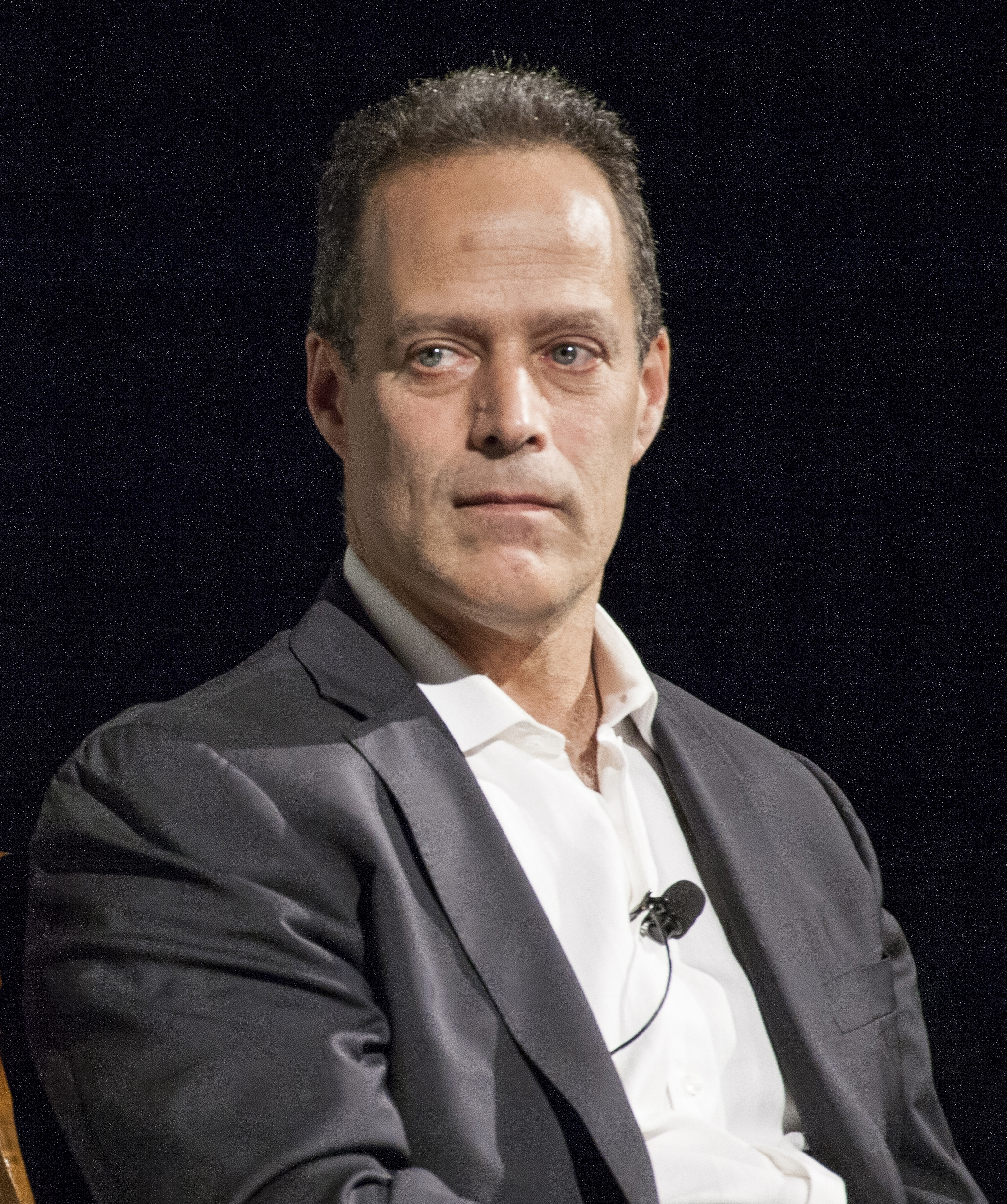 Director Sebastian Junger discusses his film Which Way is the Front Line From Here?